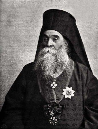 Nathanail Papanikas